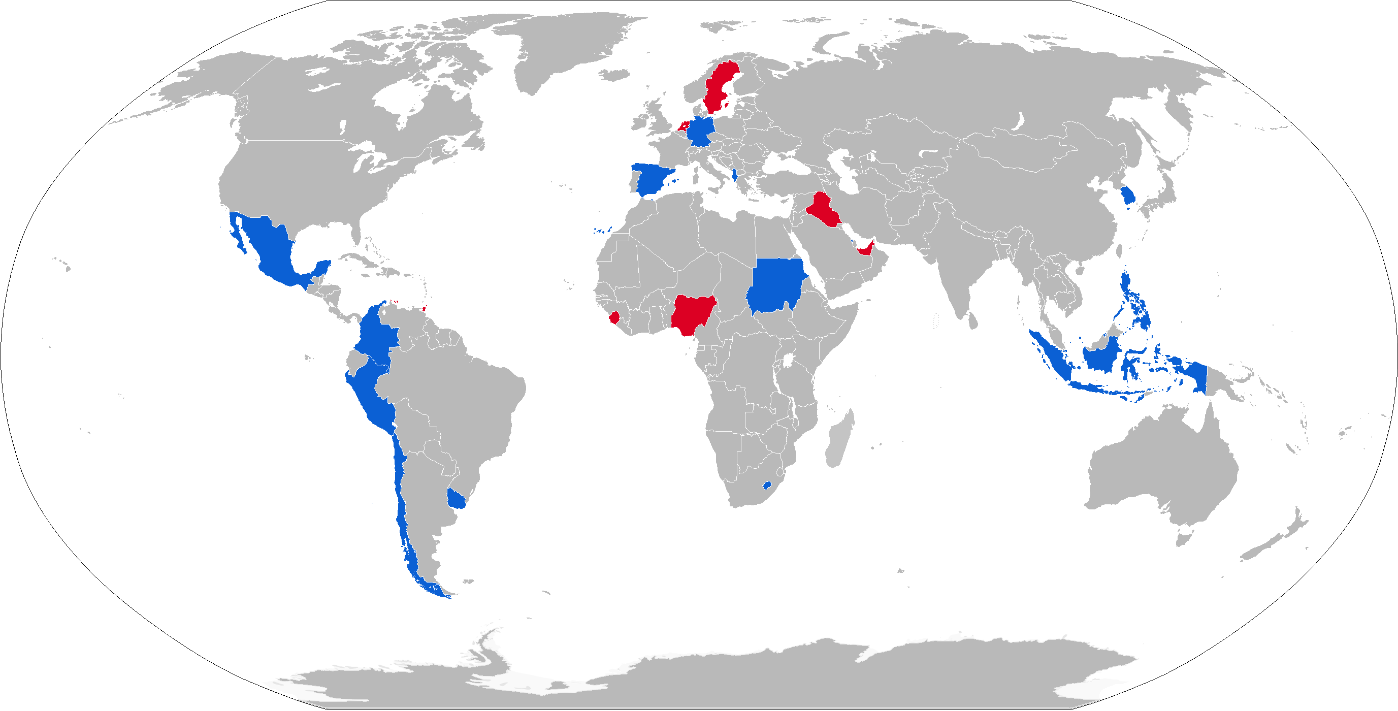 Map with military MBB Bo 105 operators in blue